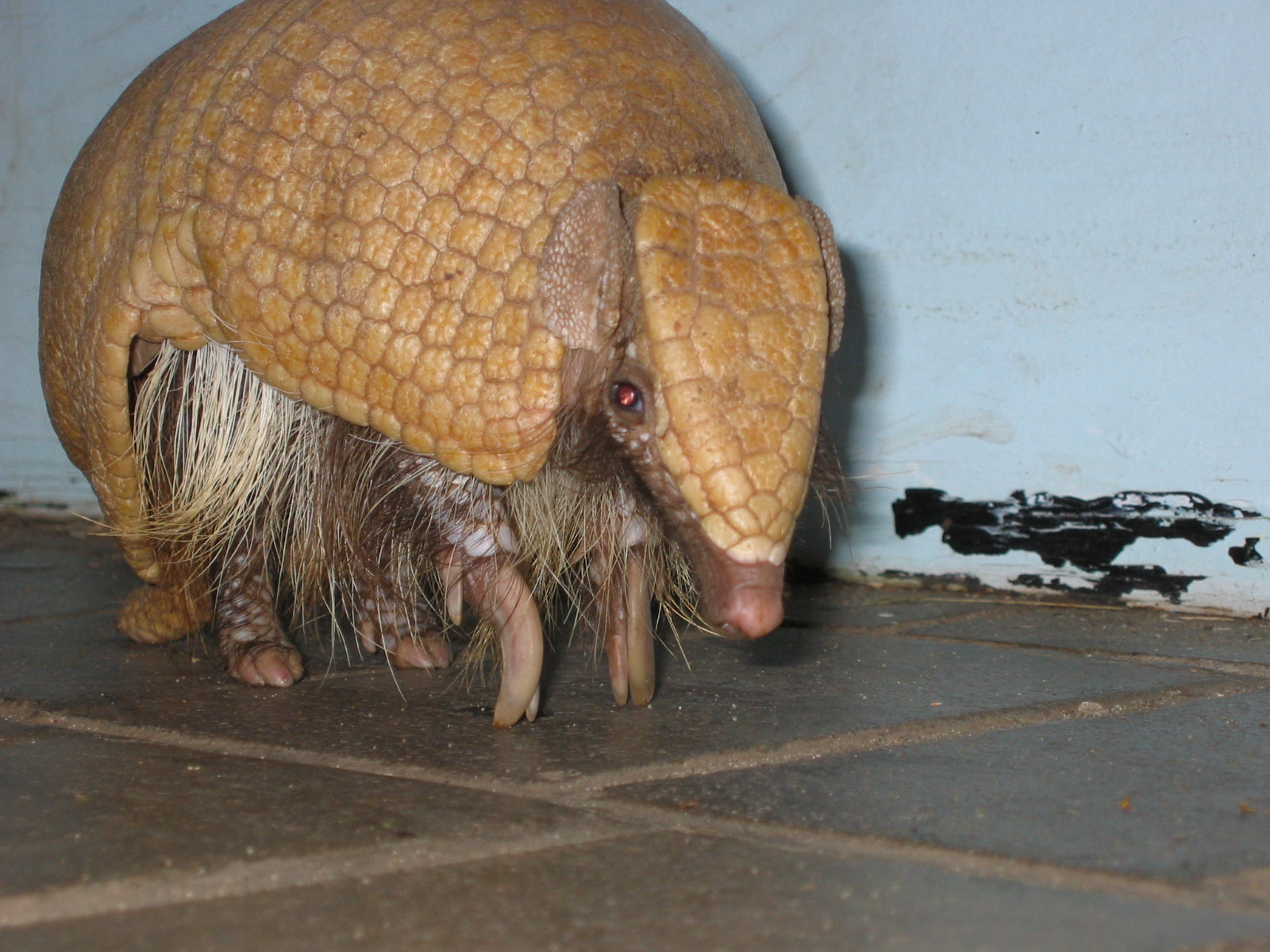 Brazilian Three-banded Armadillo, Tolypeutes tricinctus at Edmonton Zoo.